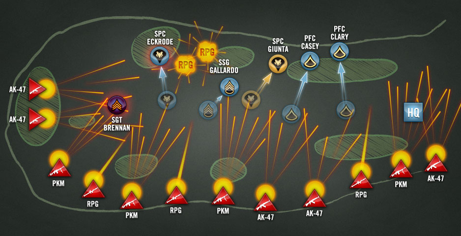 The enemy initiated the ambush with sudden and intense RPG and PKM fire. Sgt. Brennan and Spc. Eckrode, walking at the front of the single-file formation, were wounded in the initial onslaught. The enemy used an uncharacteristically high ratio of tracer rounds to normal rounds, which created a wall of fire to the left of the squad. The squad members dropped to the ground and sought cover within a couple of feet of where they had been standing to return effective, controlled fire from prone positions.